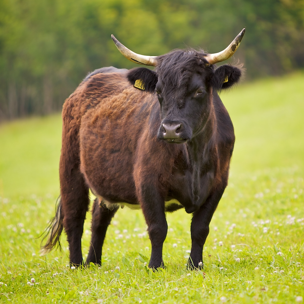 A black cow in Norway